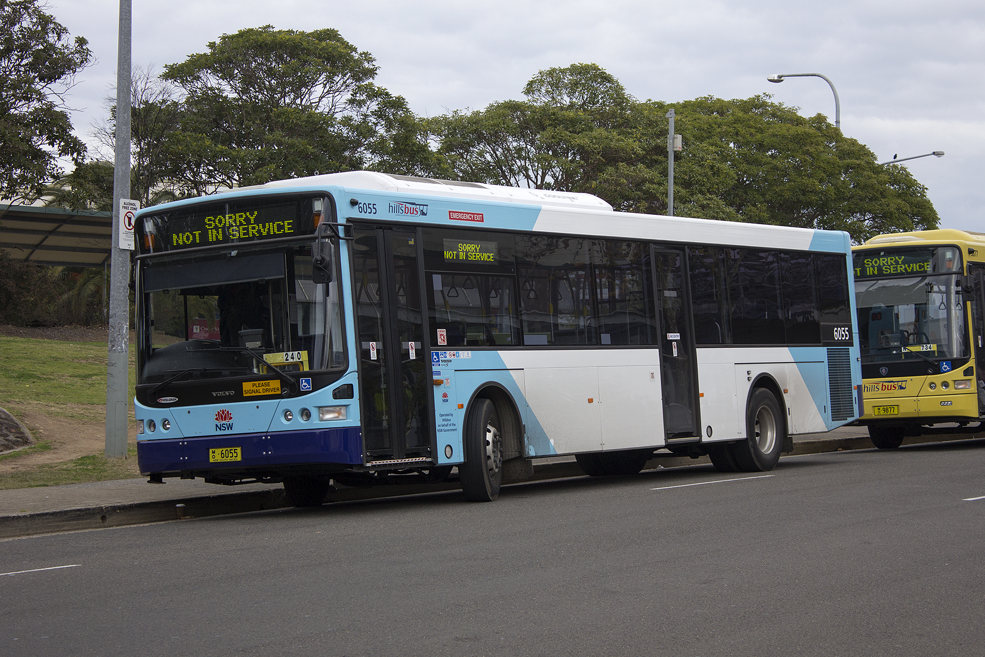 Transport NSW liveried (mo 6055), operated by Hillsbus, Volgren 'CR228L' bodied Volvo B7RLE at Castle Hill Interchange in Castle Hill, New South Wales.